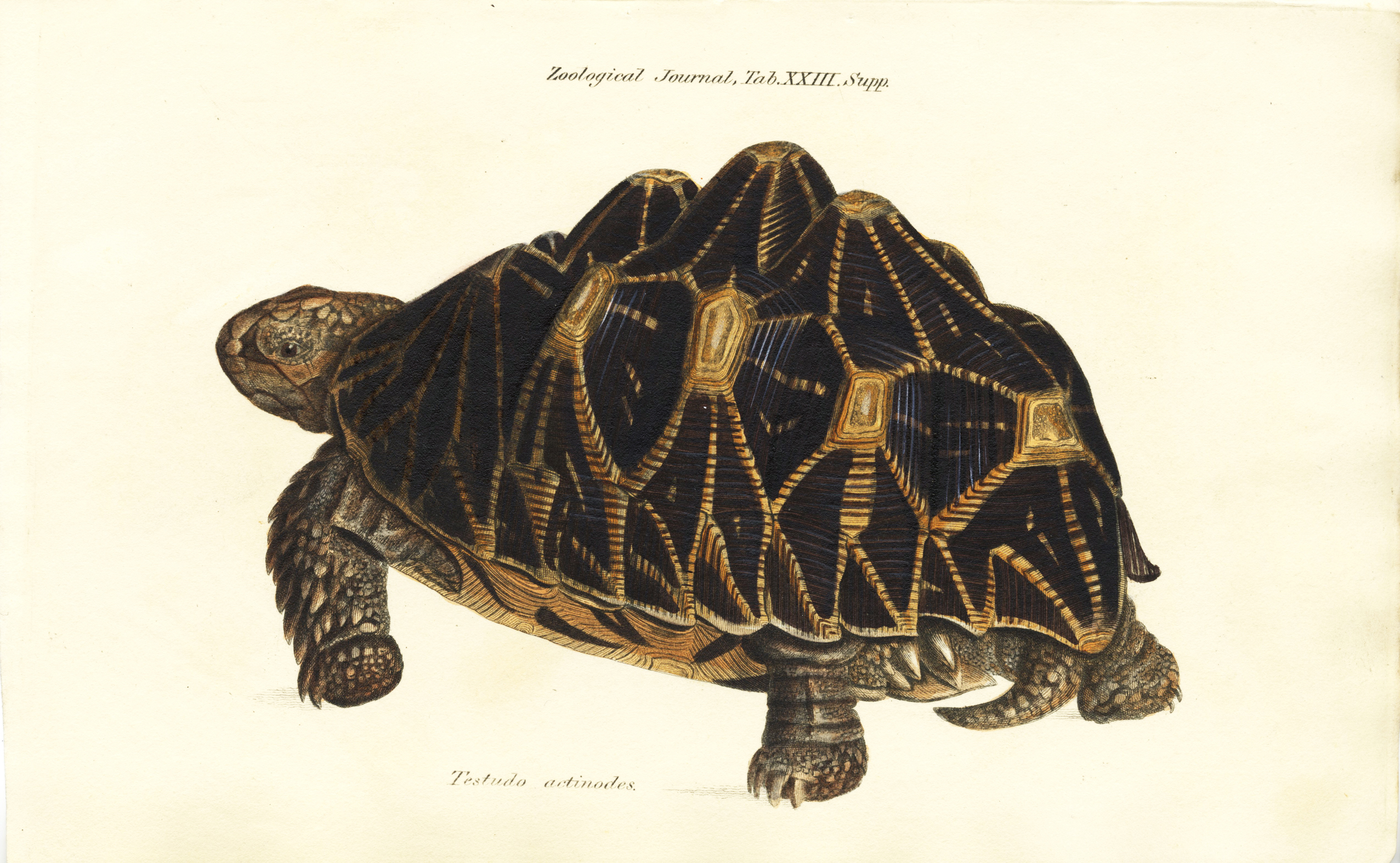 "Testudo actinodes" (Geochelone elegans) from the Zoological Journal (1825-1835). Supplementary Plate No. 23. Illustrated by James de Carle Sowerby. Hand-colored copperplate engraving.